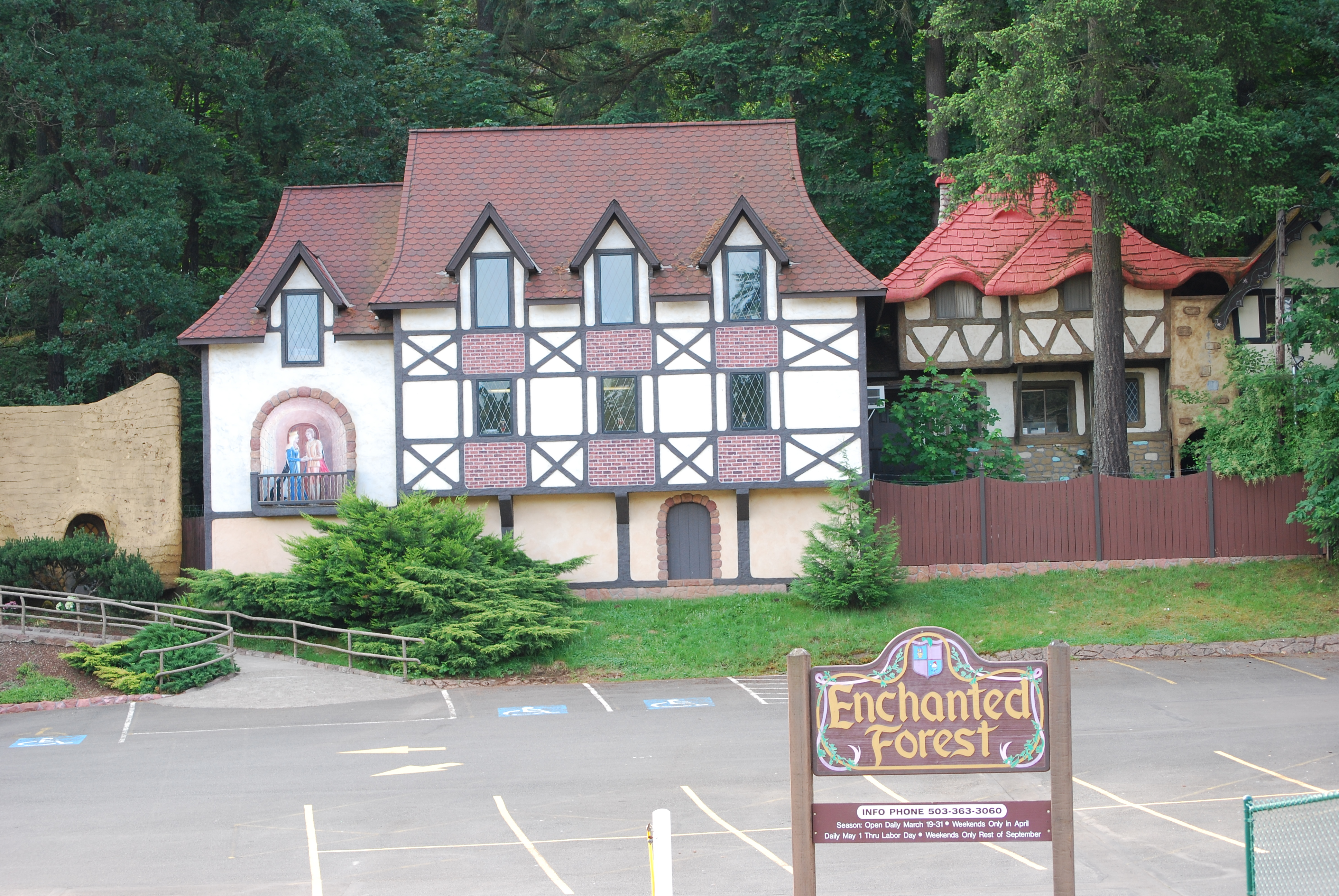 Enchanted Forest located south of Salem, Oregon